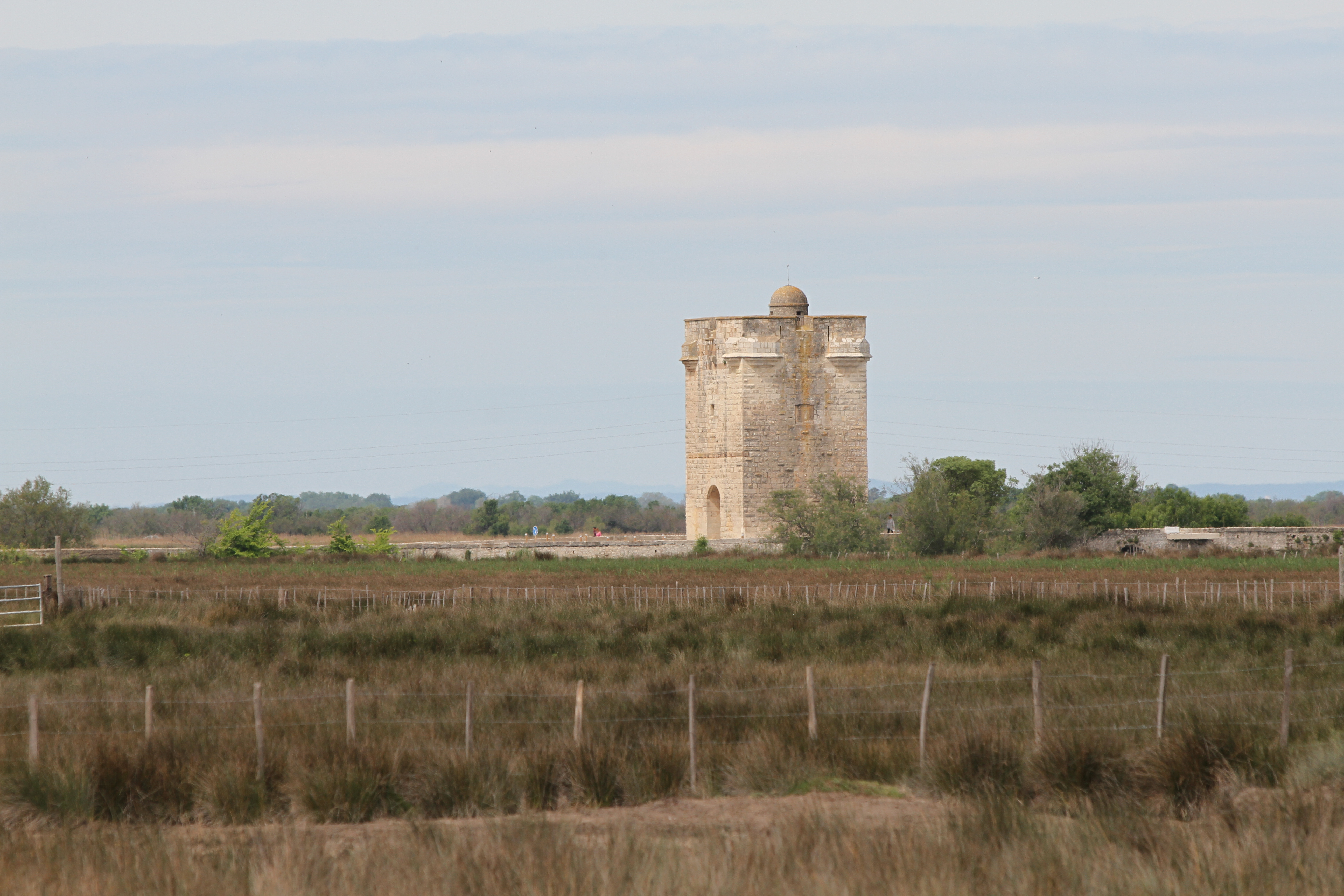 Houseboat cruise on the canal du Rhône à Sète, from Aigues-Mortes (Gard, France)